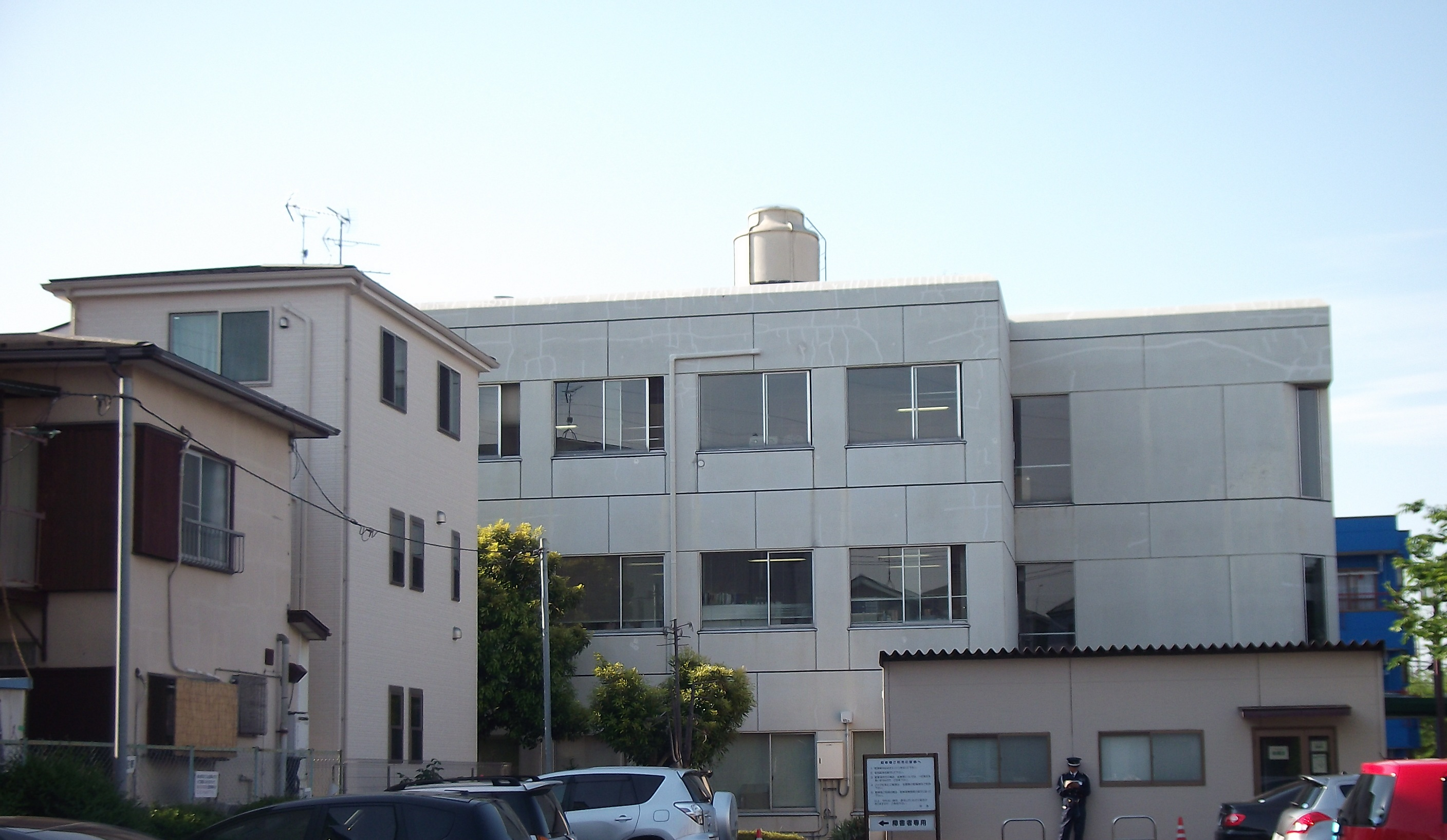 Kawasaki-kita Public Employment Security Office (Hellowork Kawasaki-kita)